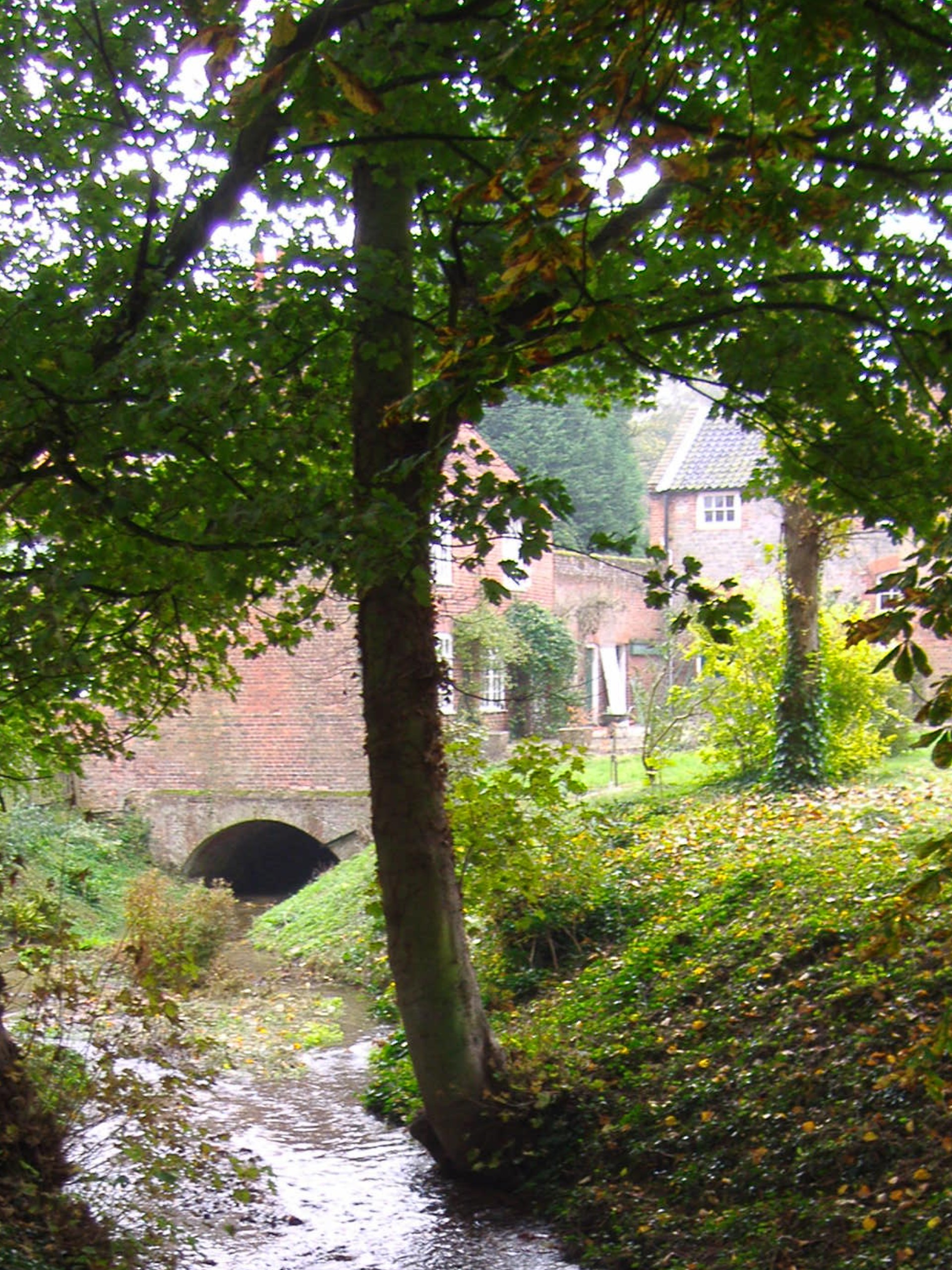 A Digital Photograph of the River Cong at Congham Oil Mill 17th October 2007